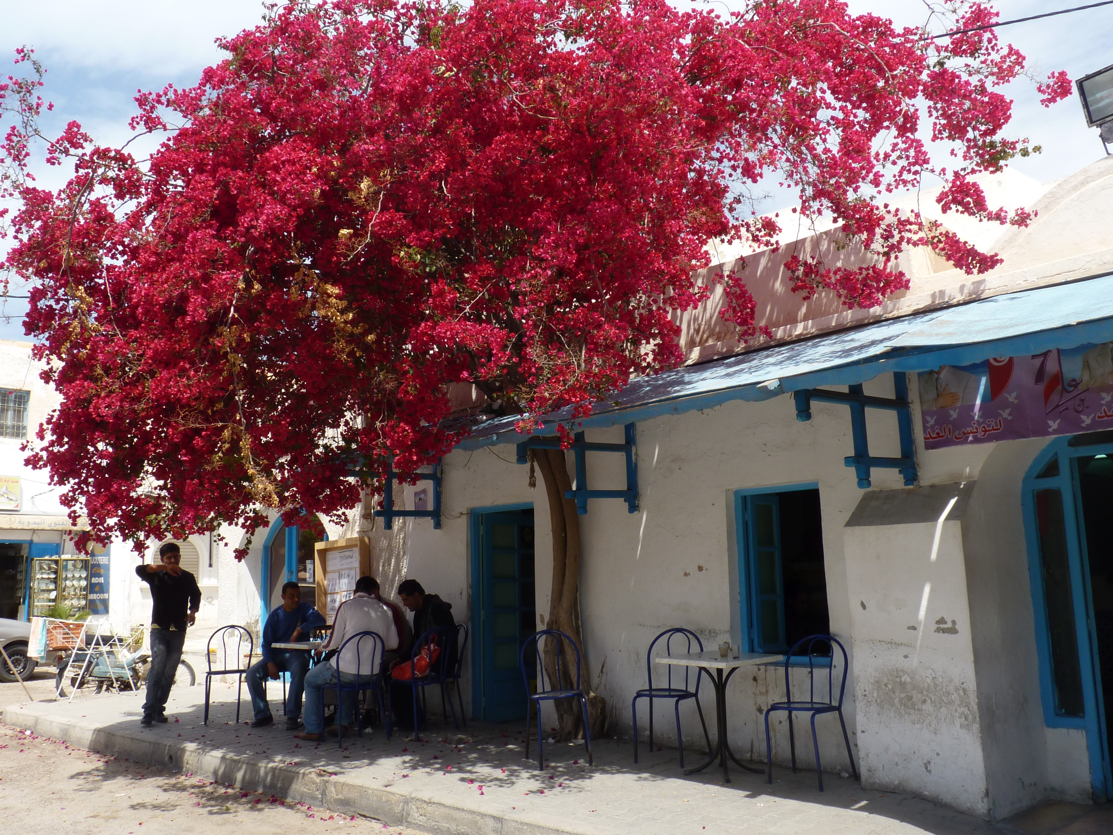 Flowering tree in Houmt Souk, Djerba